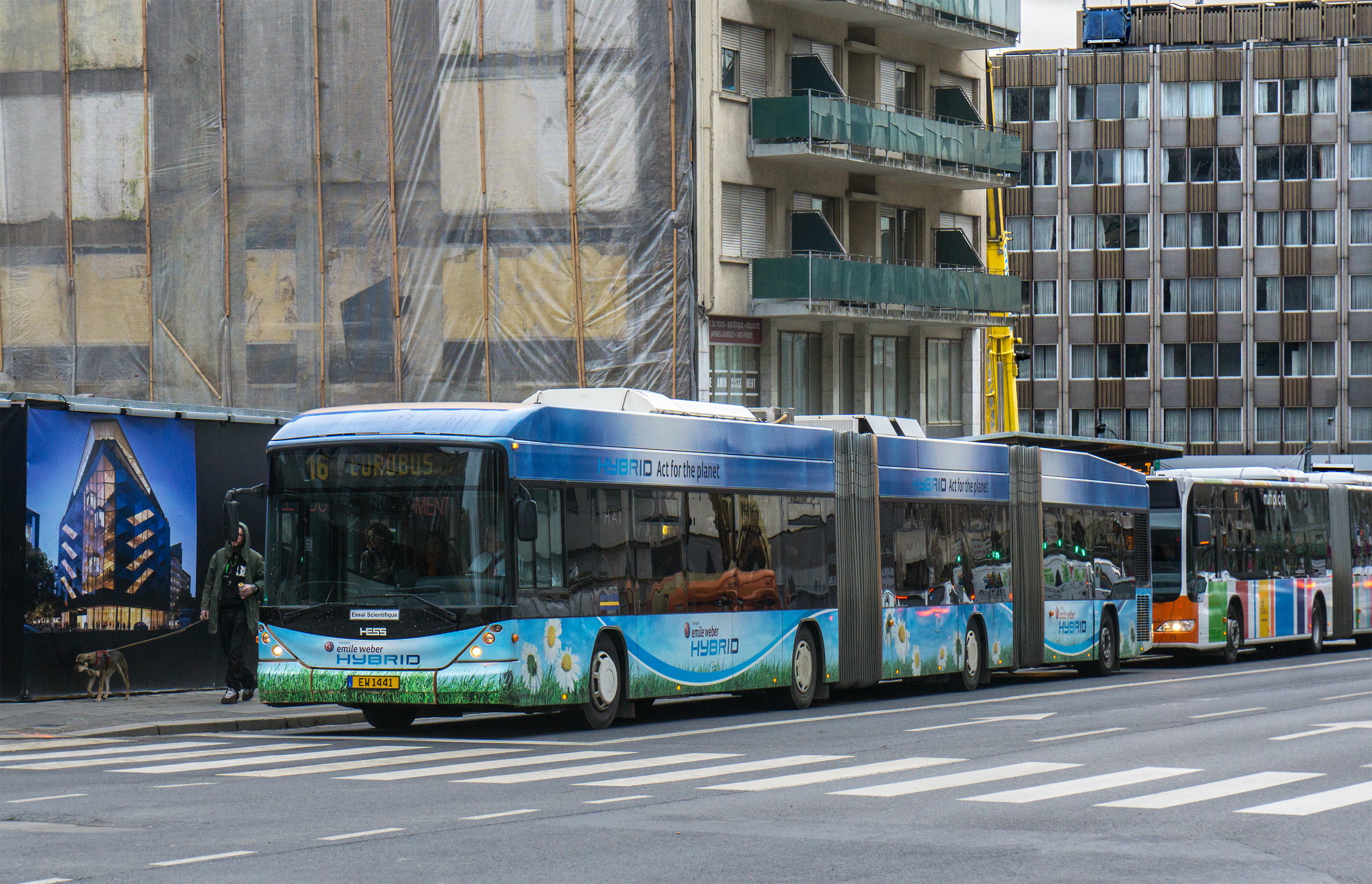 Hybrid-bus of Émile Weber on Boulevard Royal on AVL-line 16